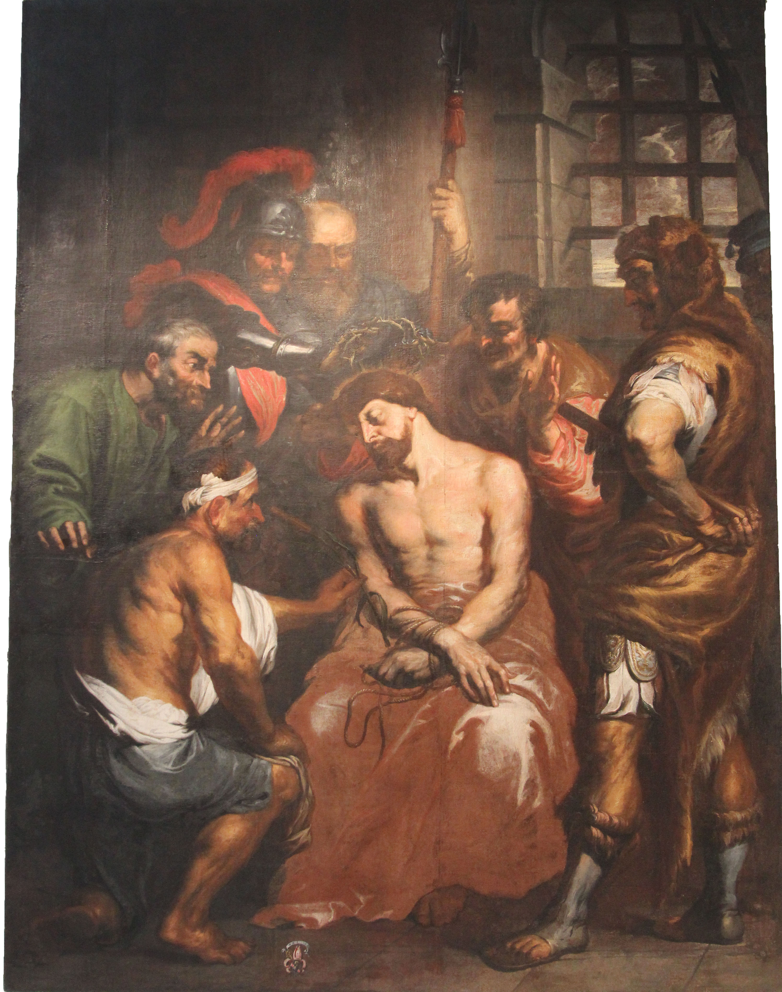 Michael Willman Christ Crowned with Thorns (1661) from Pauline Father's Church of Holy Spirit Warsaw-New Town (originally in Cistercian monastic church Lubiąż Abbey).